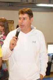 Alon Ben Zaken - Former Basketball Player